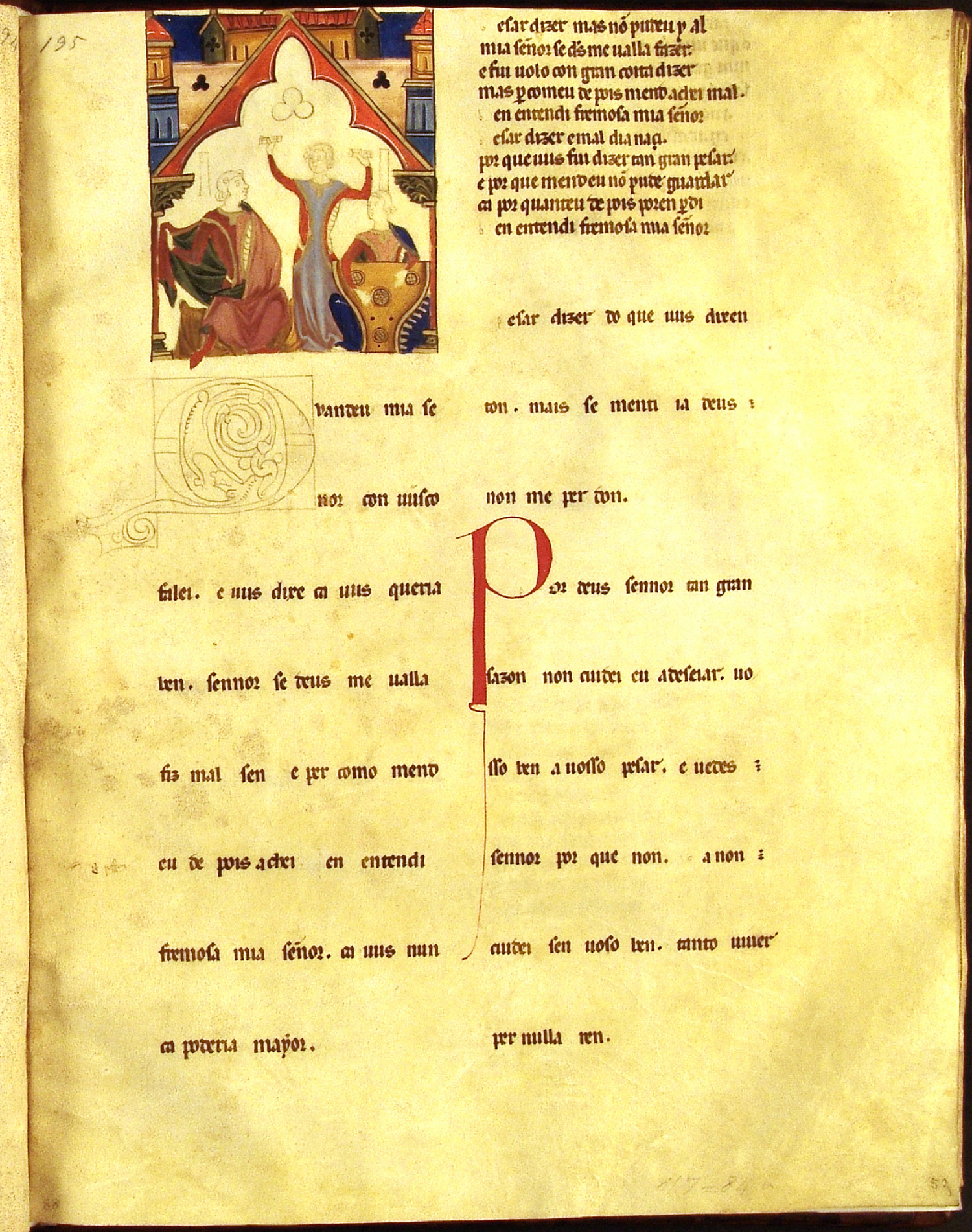 Cancioneiro da Ajuda manuscripts